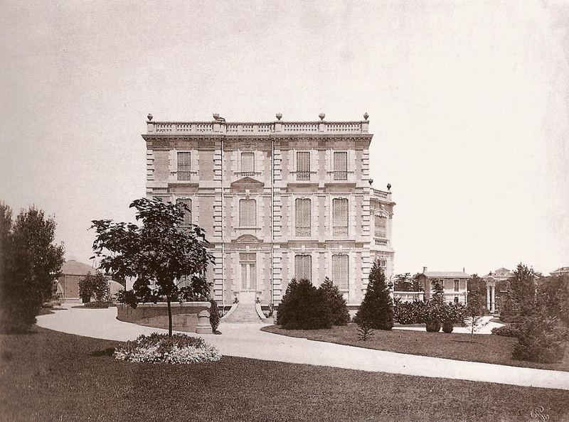 Back facade of Palacio de Indo (Paseo de la Castellana, Madrid).